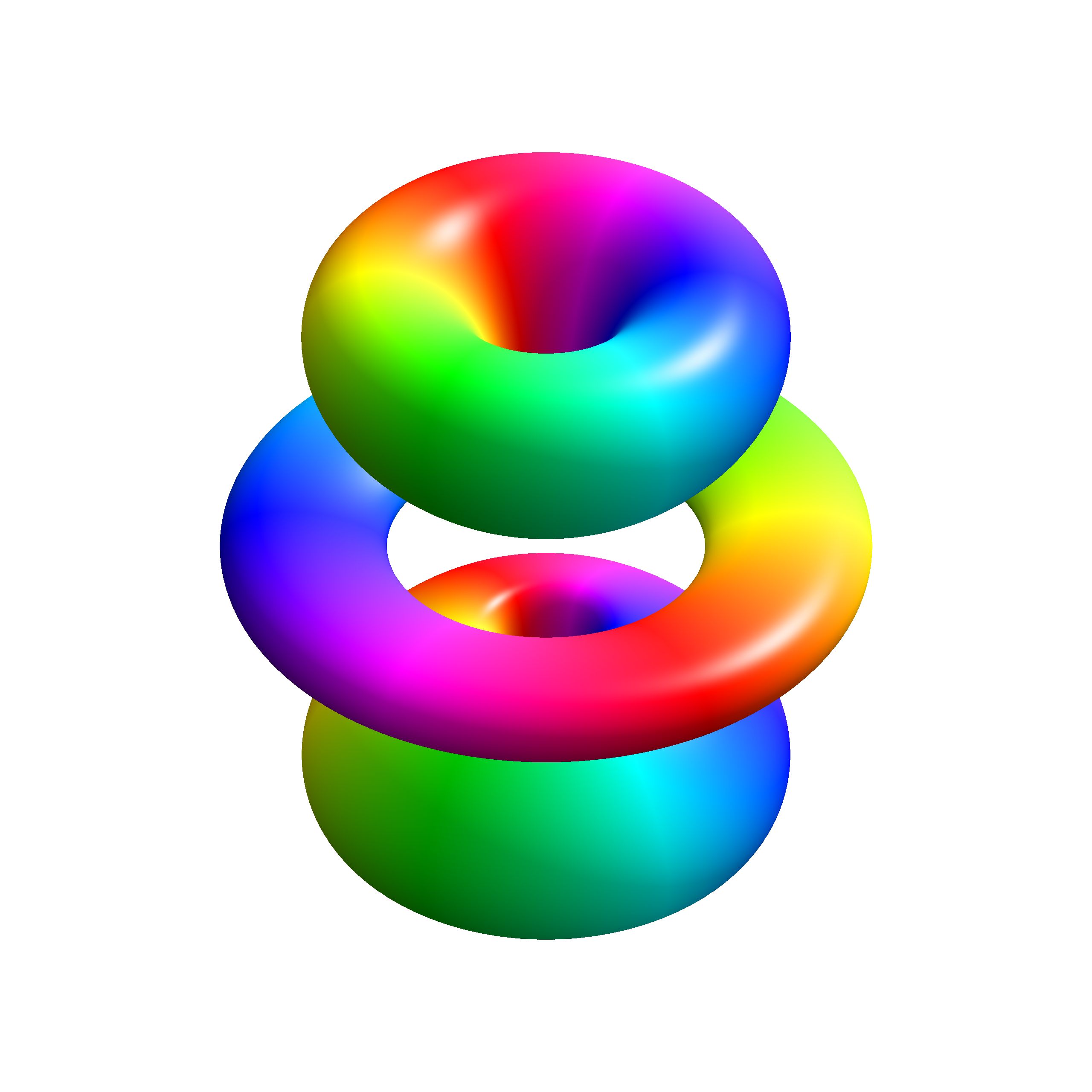 Calculated 4f1 orbital of an electron's eigenstate in the Coulomb-field of a hydrogen nucleus. An eigenstate is a state which keeps it's shape except for a complex phase when the Hamilton operator is applied, thus being invariant in time while obeying the Schrödinger equation. The orbital is aligned around the z-axis, but remains an eigenfunction if rotated to any direction. The wavefunction is: ψ 4 , 3 , 1 ( r , ϑ , φ ) = ( 1 2 a 0 ) 3 1 8 ⋅ 7 ! ⋅ e − r / ( 4 a 0 ) ⋅ ( 1 r 2 a 0 ) 3 ⋅ Y 3 1 ( ϑ , φ ) {\displaystyle \psi _{4,3,1}(r,\vartheta ,\varphi )={\sqrt \left({\frac {1}{2\,a_{0 }\right)}^{3}{\frac {1}{8\cdot 7! \cdot e^{\textstyle -r/(4\,a_{0})}\cdot \left({\frac {1\,r}{2\,a_{0 }\right)^{3}\cdot Y_{3}^{1}(\vartheta ,\varphi )} The state is an eigenstate of H, L² and Lz, which constitute a complete set of commuting observables. The quantum numbers mean that the following quantities have a sharp certain value: n = 4: Energy: E = − 1 R y / n 2 = − 13.6 e V / 16 {\displaystyle E=-1\,\mathrm {Ry} /n^{2}=-13.6\,\mathrm {eV} /16} l = 3: Angular momentum: | L | = l ( l + 1 ) ℏ = 2 3 ℏ {\displaystyle |L|={\sqrt {l\,(l+1) \,\hbar =2{\sqrt {3 \,\hbar } m = 1: Angular momentum in z-direction: L z = m ℏ = ℏ {\displaystyle L_{z}=m\,\hbar =\hbar } Since l=3, this is called a f-orbital. The depicted rigid body is where the probability density exceeds a certain value. The color shows the complex phase of the wavefunction, where blue means real positive, red means imaginary positive, yellow means real negative and green means imaginary negative. The image is raytraced using modified Phong lighting. The fine structure is neglected.